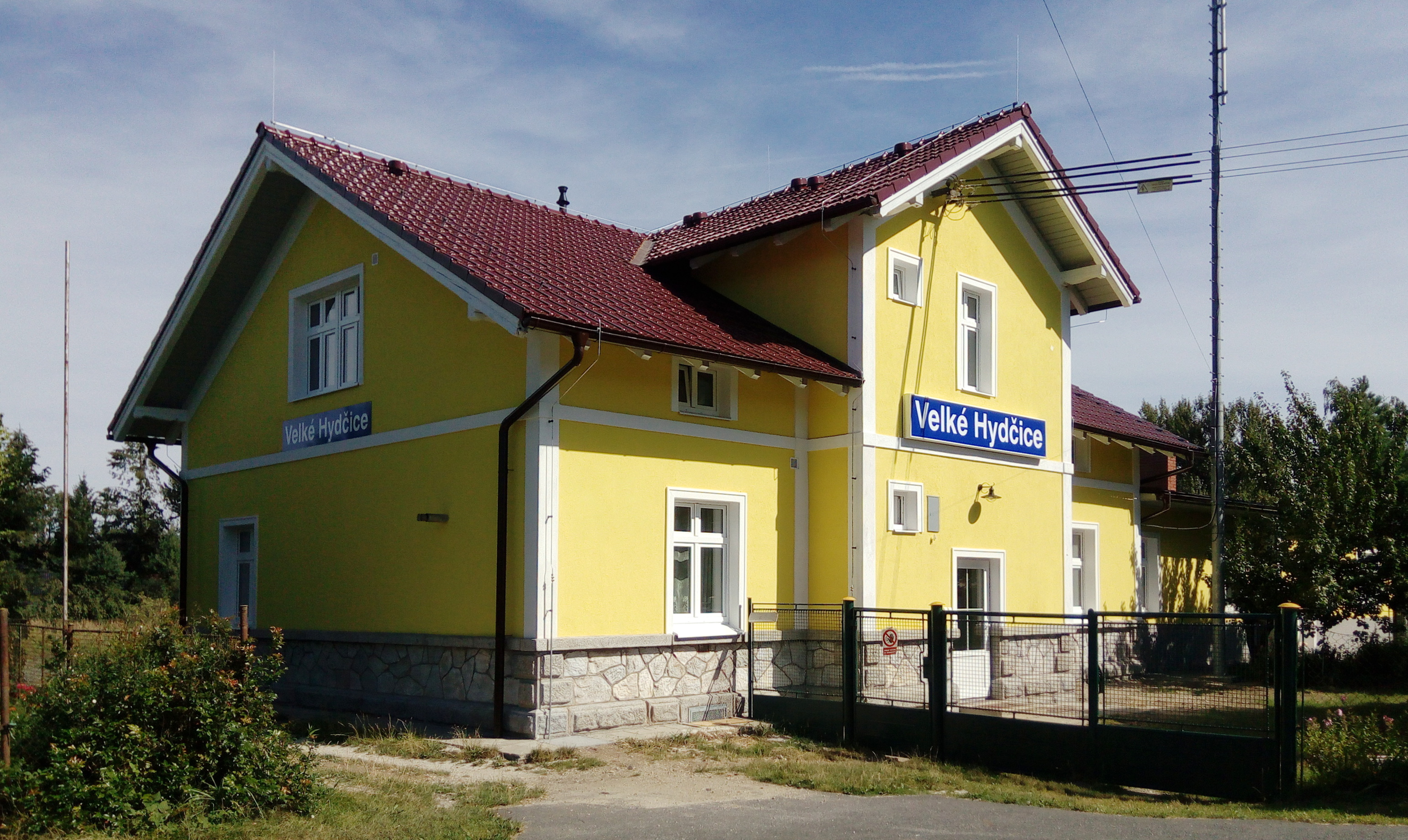 Train station in the municipality of Velké Hydčice, Klatovy District, Plzeň Region, Czechia.